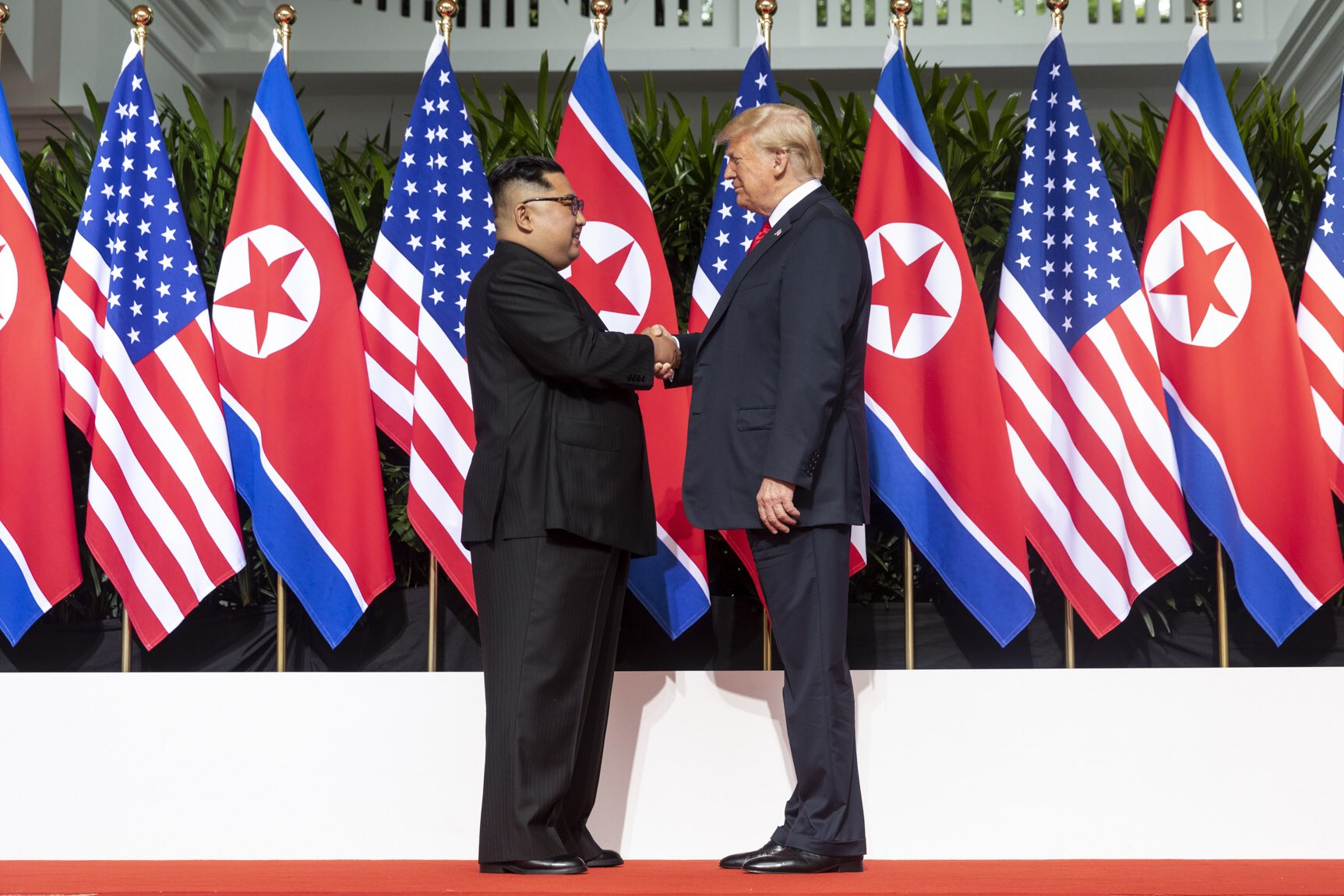 Kim and Trump shaking hands at the red carpet during the DPRK–USA Singapore Summit